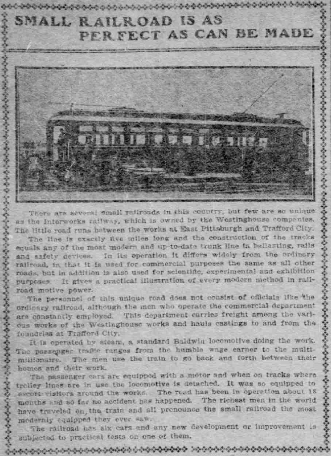 A 1904 promotional article for the Westinghouse Interworks Railway entitled, "SMALL RAILROAD IS AS PERFECT AS CAN BE MADE"